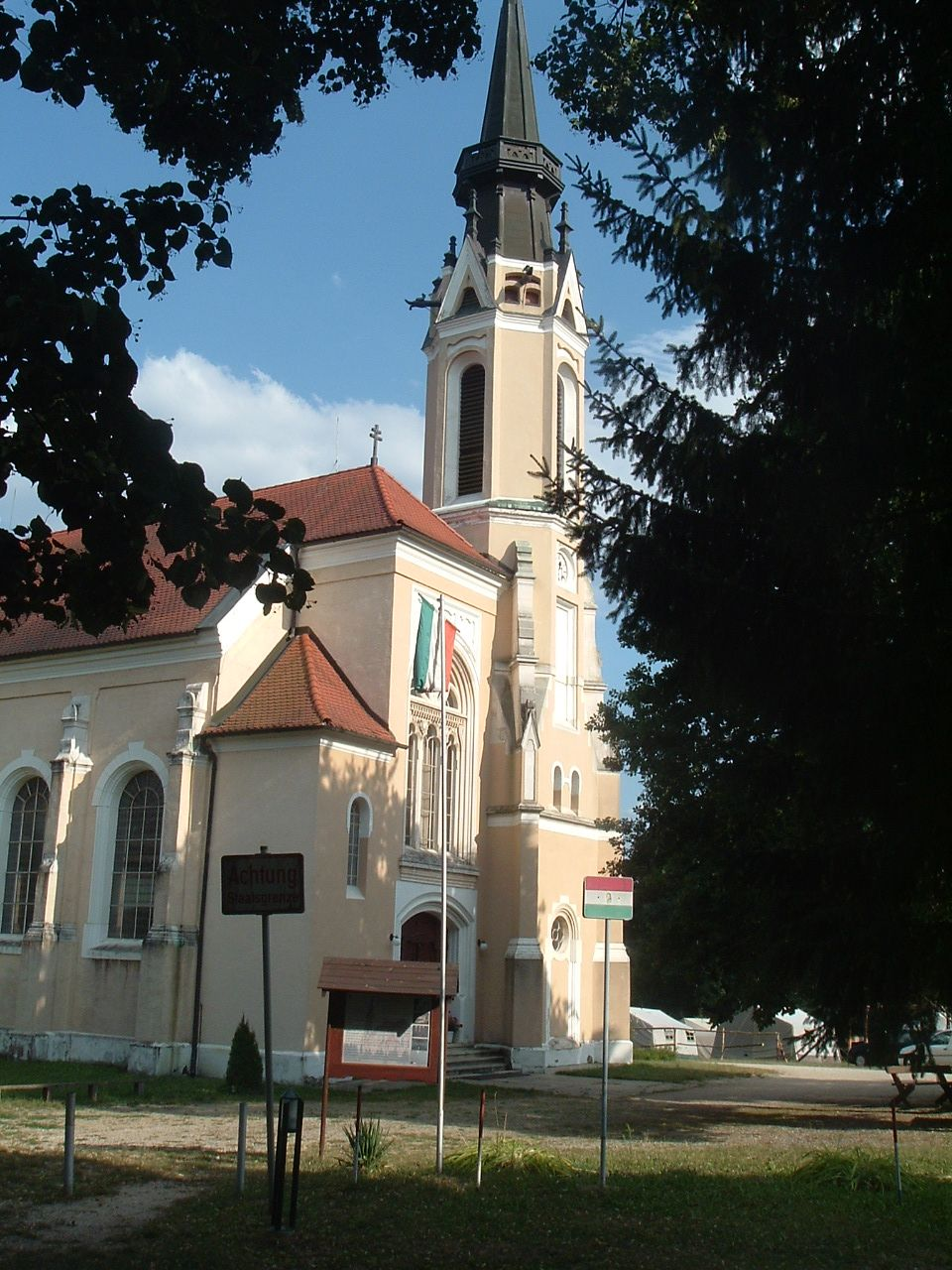 The Szent Imre Church in Rönök, by the austrian-hungarian frontier.